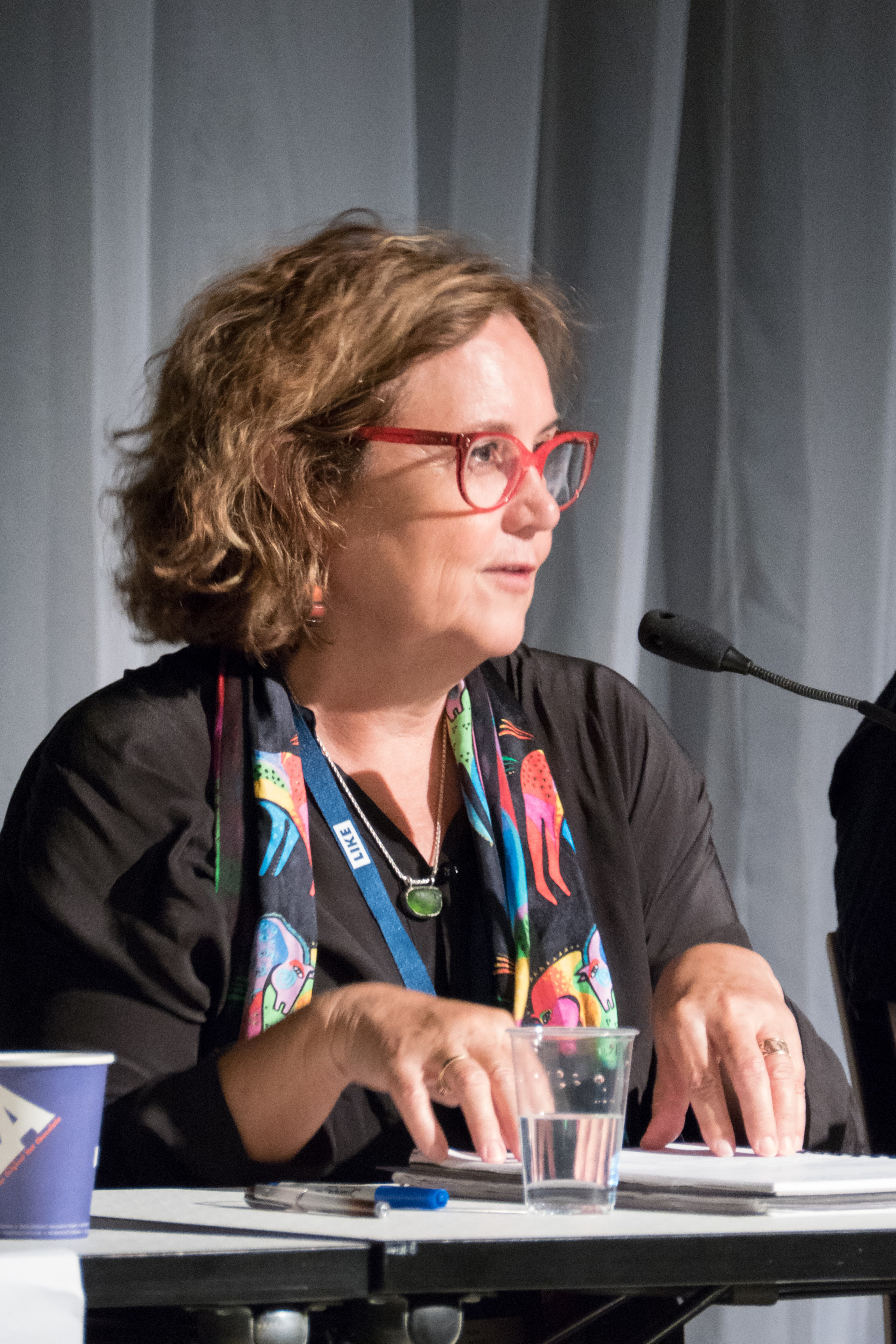 World Science Fiction Convention in Helsinki, 2017. Future Shock, and Do YOU Suffer From It? Kathleen Ann Goonan